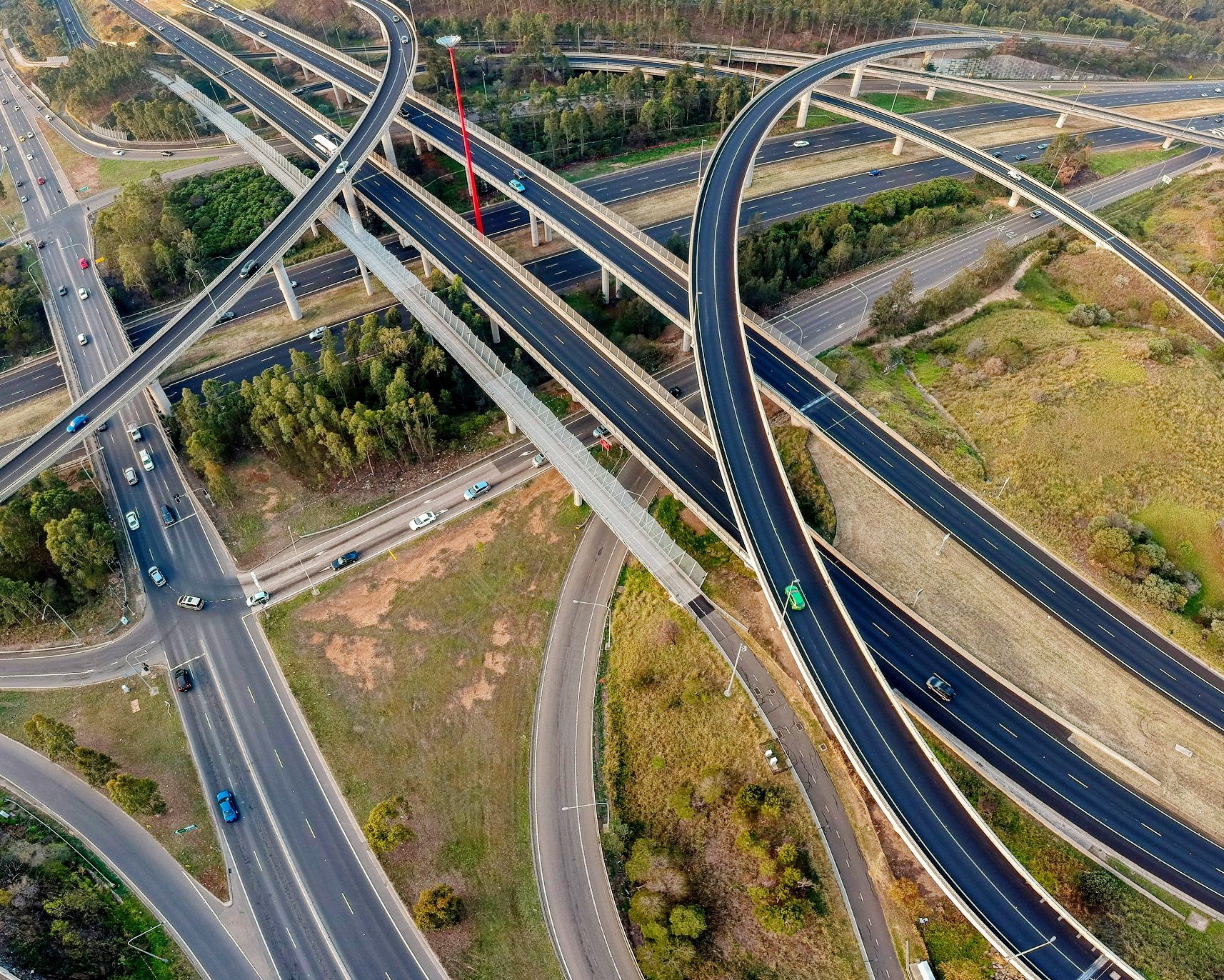 Aerial view of the Light Horse Interchange in Sydney, Australia - the largest in the southern hemisphere.